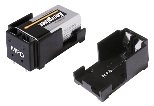 9 volt battery holder with Energizer battery